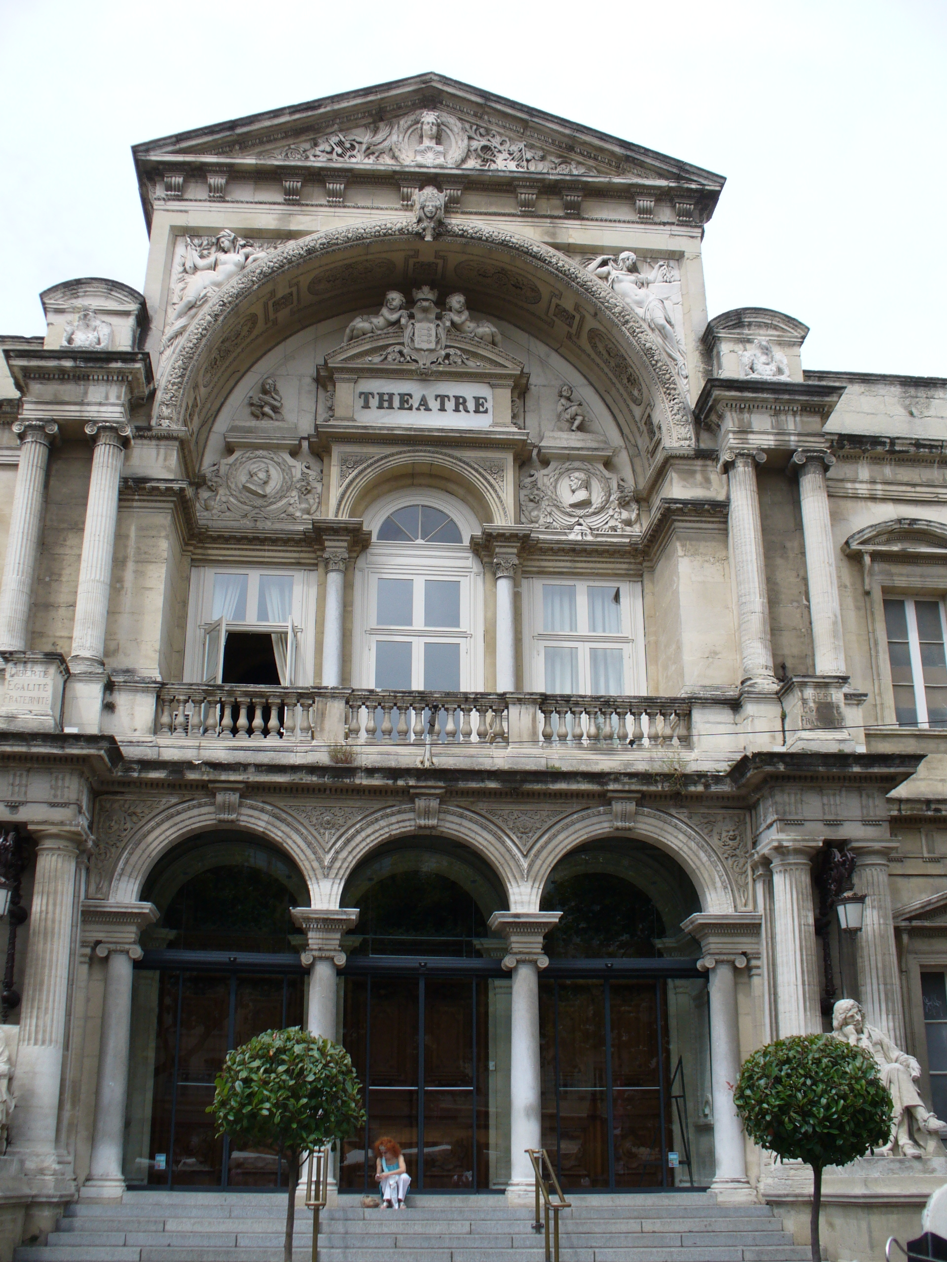 Avignon-Theatre-Opera